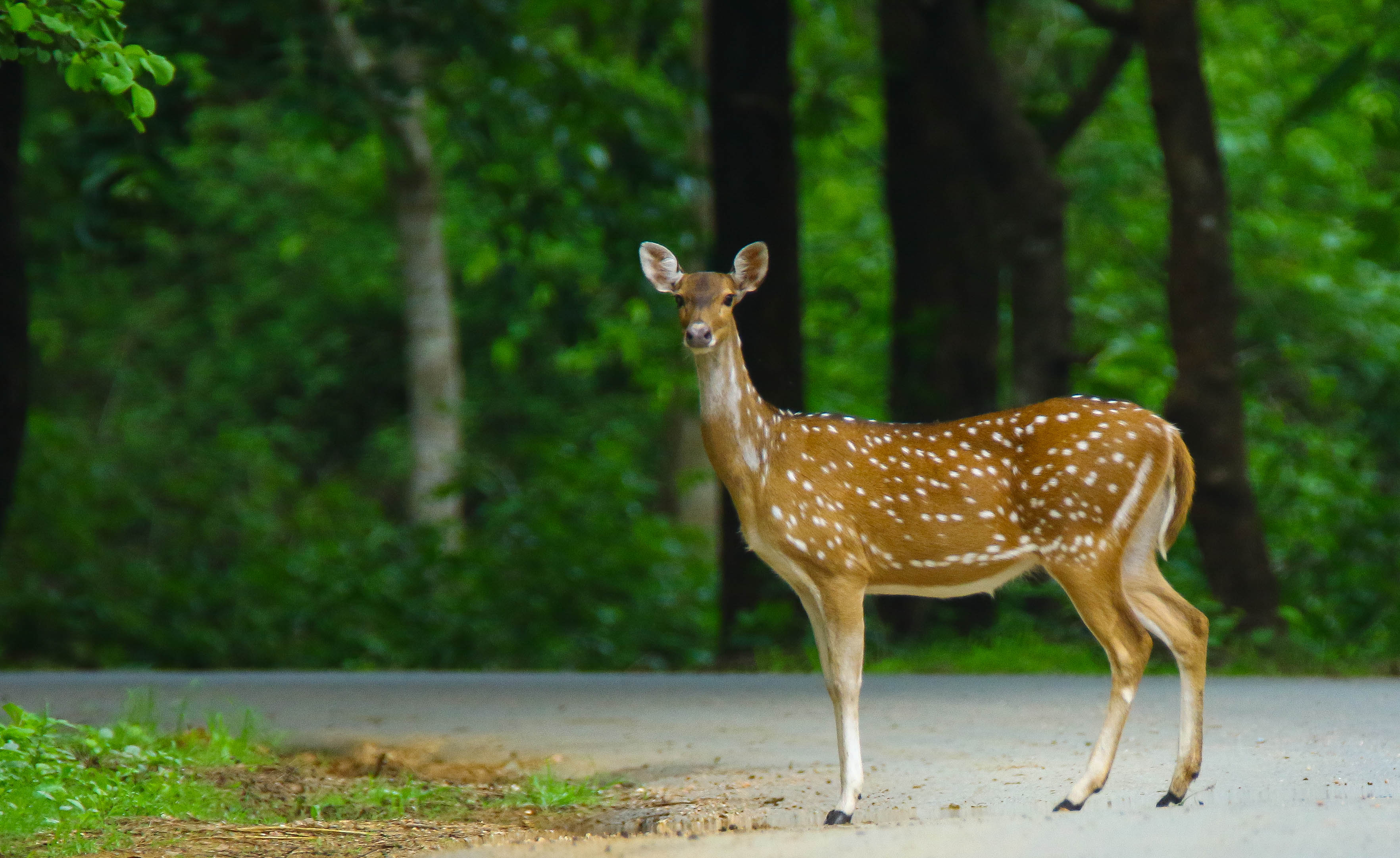 " Natural frame "